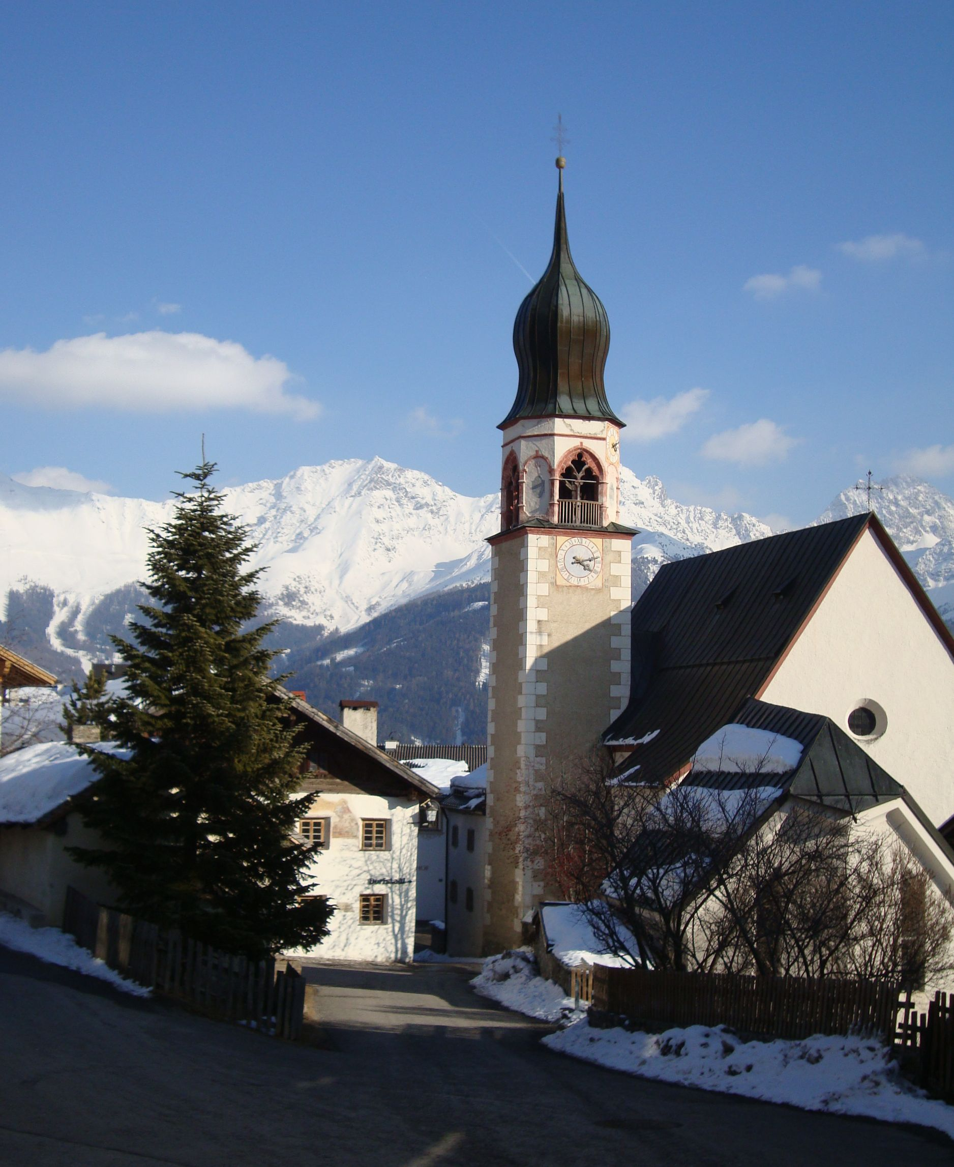 village center of Fiss, Austria